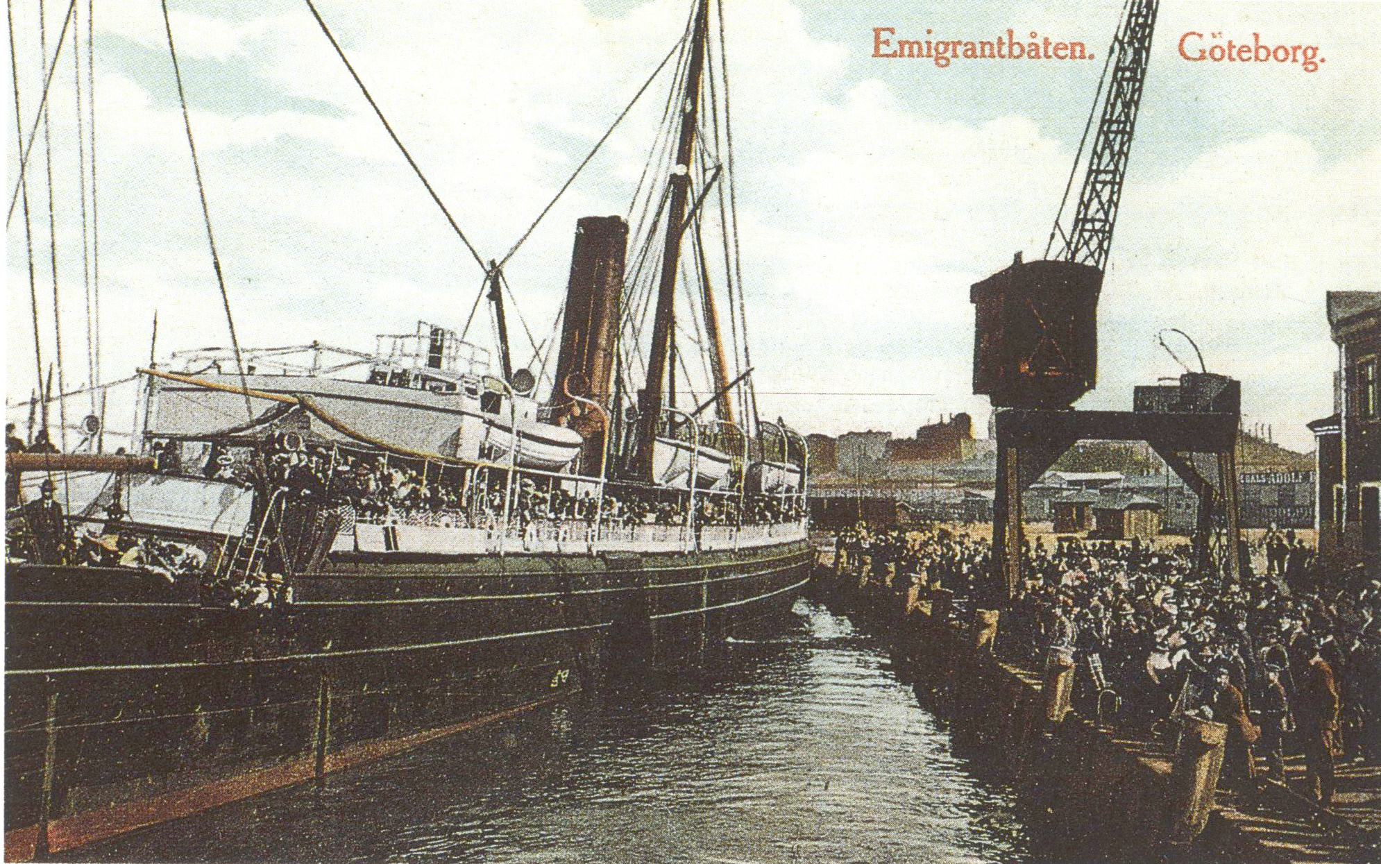 SS Rollo in Gothenburg